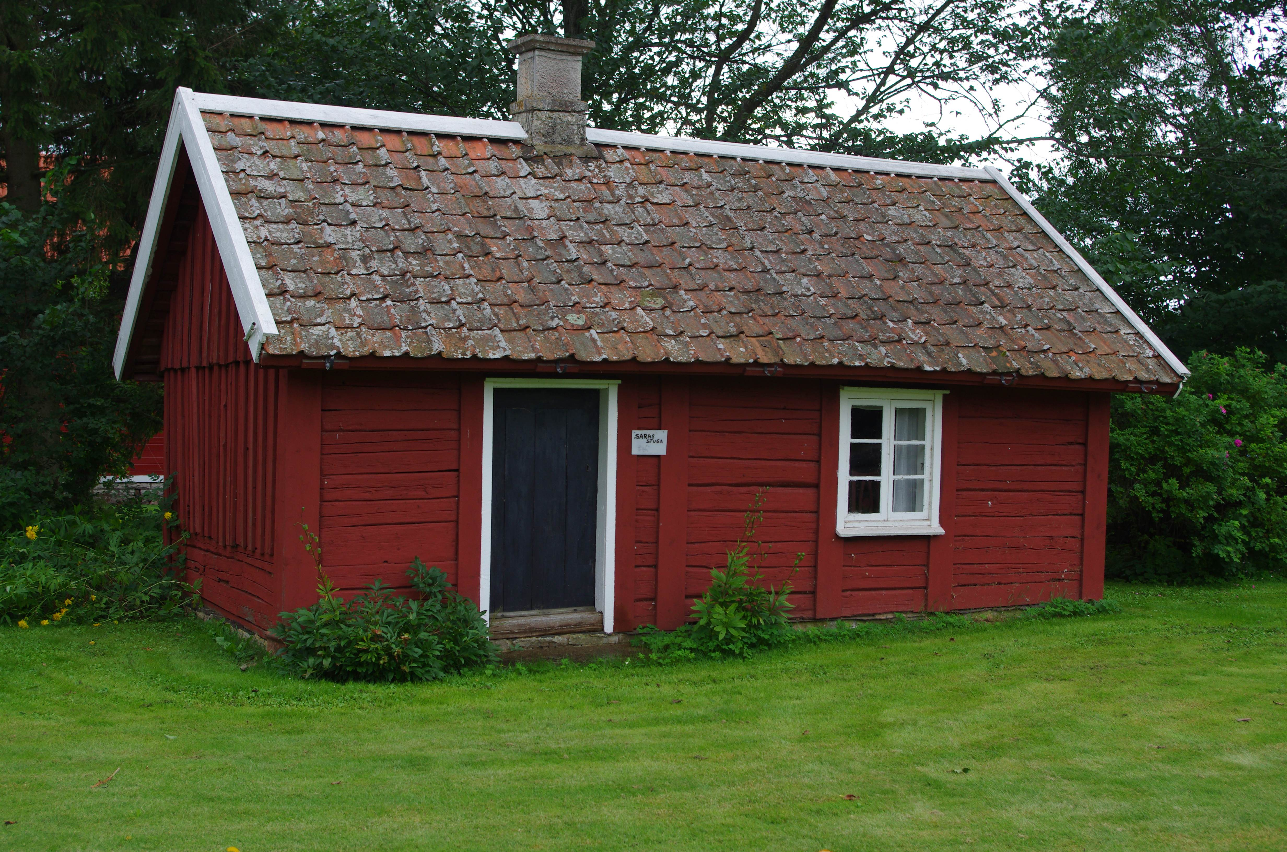 Saras stuga (Saras cabin) in Norra Lundby parish in Valle hundred in Västergötland, Sweden.